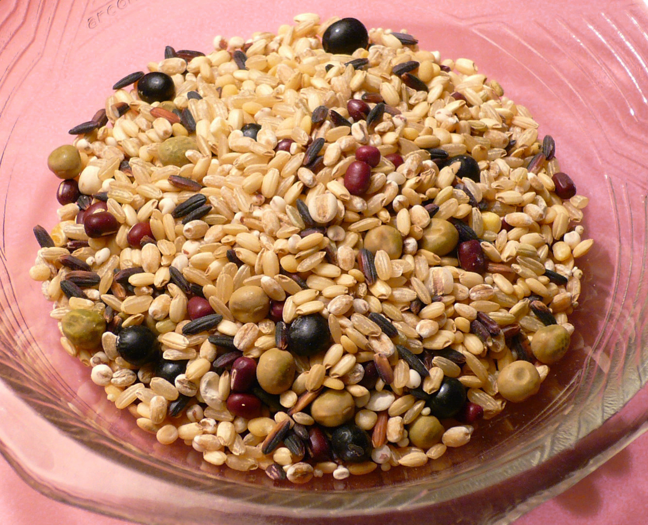 A small bowl of japgo-bap (a mixture of rice with various grains and beans, eaten in Korean cuisine). Photo taken in Kent, Ohio with a Panasonic Lumix digital camera (model DMC-LS75). Visible ingredients include dried short-grain rice, glutinous rice, red rice, black glutinous rice, barley, sorghum (Indian millet), azuki beans, green peas, black soybeans, Job's tears, and corn.